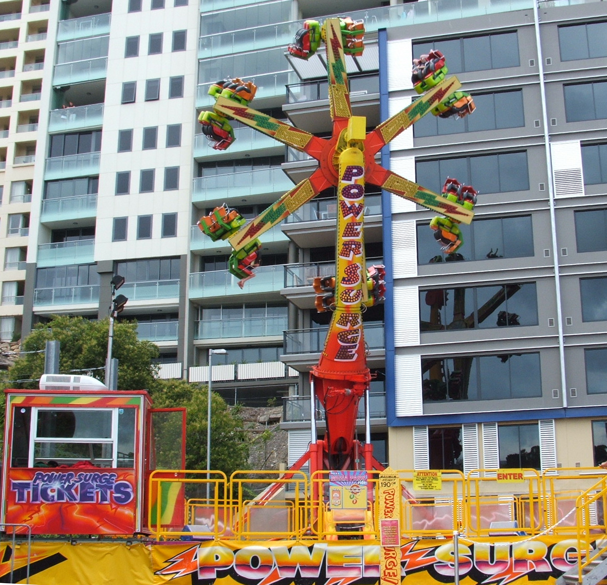 Image of Power Surge amusement ride, travelling model.